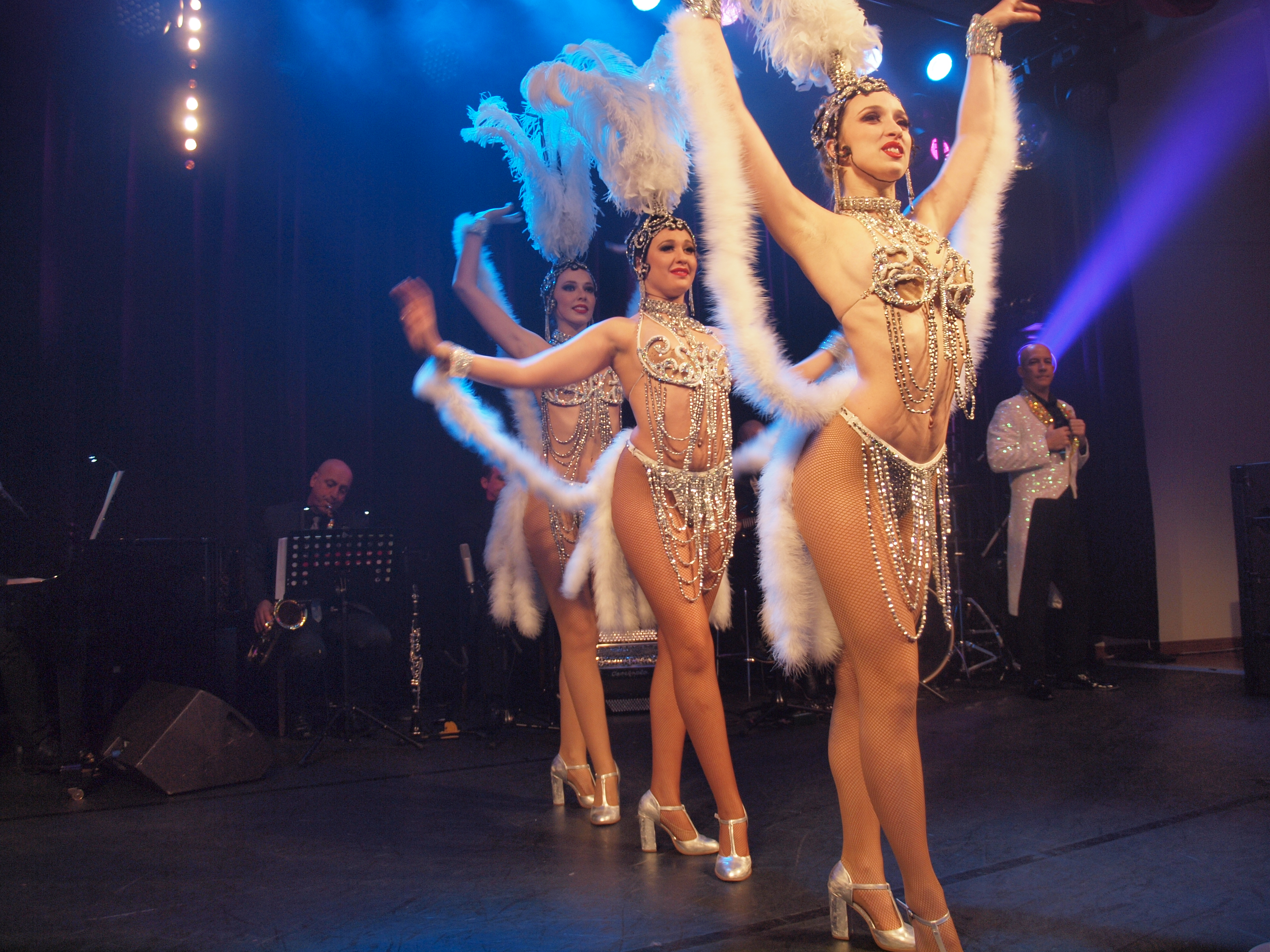 Dancing girls at the Paris Cabaret Show in Casino Helsinki, Finland.